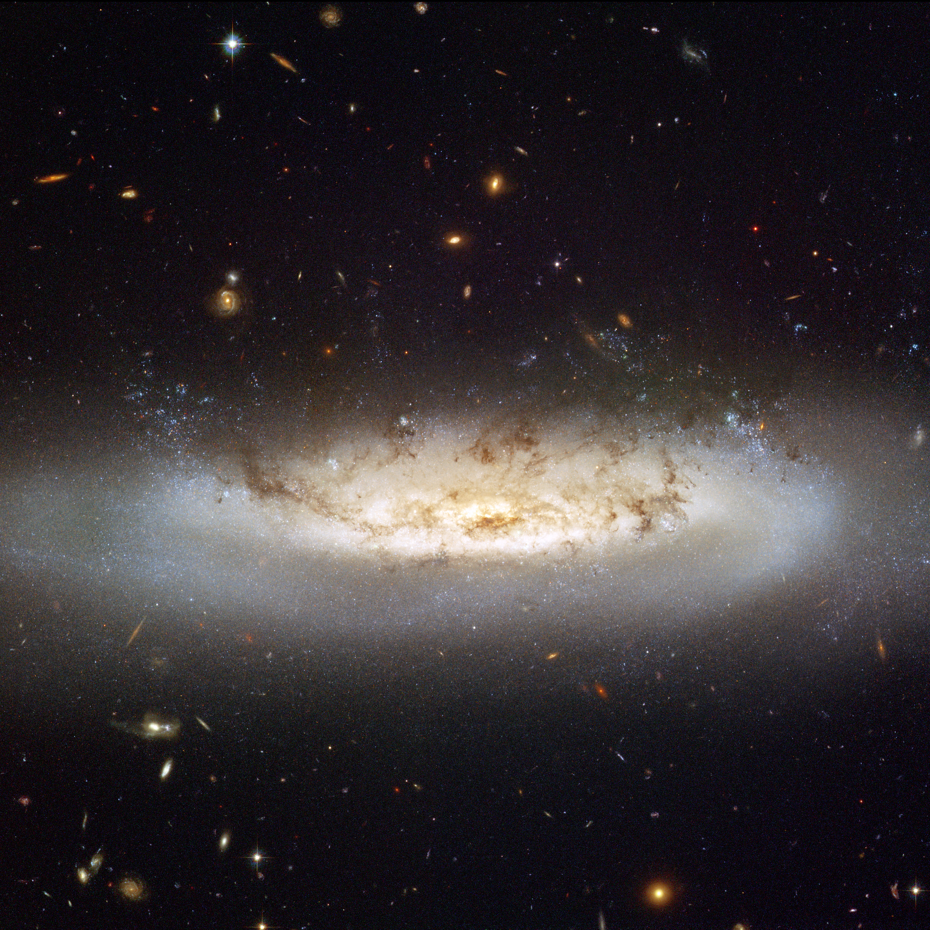 Hubble's Advanced Camera for Surveys (ACS) allows astronomers to study an interesting and important phenomenon called ram pressure stripping that is so powerful, it is capable of mangling galaxies and even halting their star formation. NGC 4522 is a spectacular example of a spiral galaxy that is currently being stripped of its gas content. The galaxy is part of the Virgo galaxy cluster and its rapid motion within the cluster results in strong winds across the galaxy as the gas within is left behind. Scientists estimate that the galaxy is moving at more than 10 million kilometres per hour. A number of newly formed star clusters that developed in the stripped gas can be seen in the Hubble image. The stripped spiral galaxy is located some 60 million light-years away from Earth. Even though it is a still image, Hubble's view of NGC 4522 practically swirls off the page with apparent movement. It highlights the dramatic state of the galaxy with an especially vivid view of the ghostly gas being forced out of it. Bright blue pockets of new star formation can be seen to the right and left of centre.